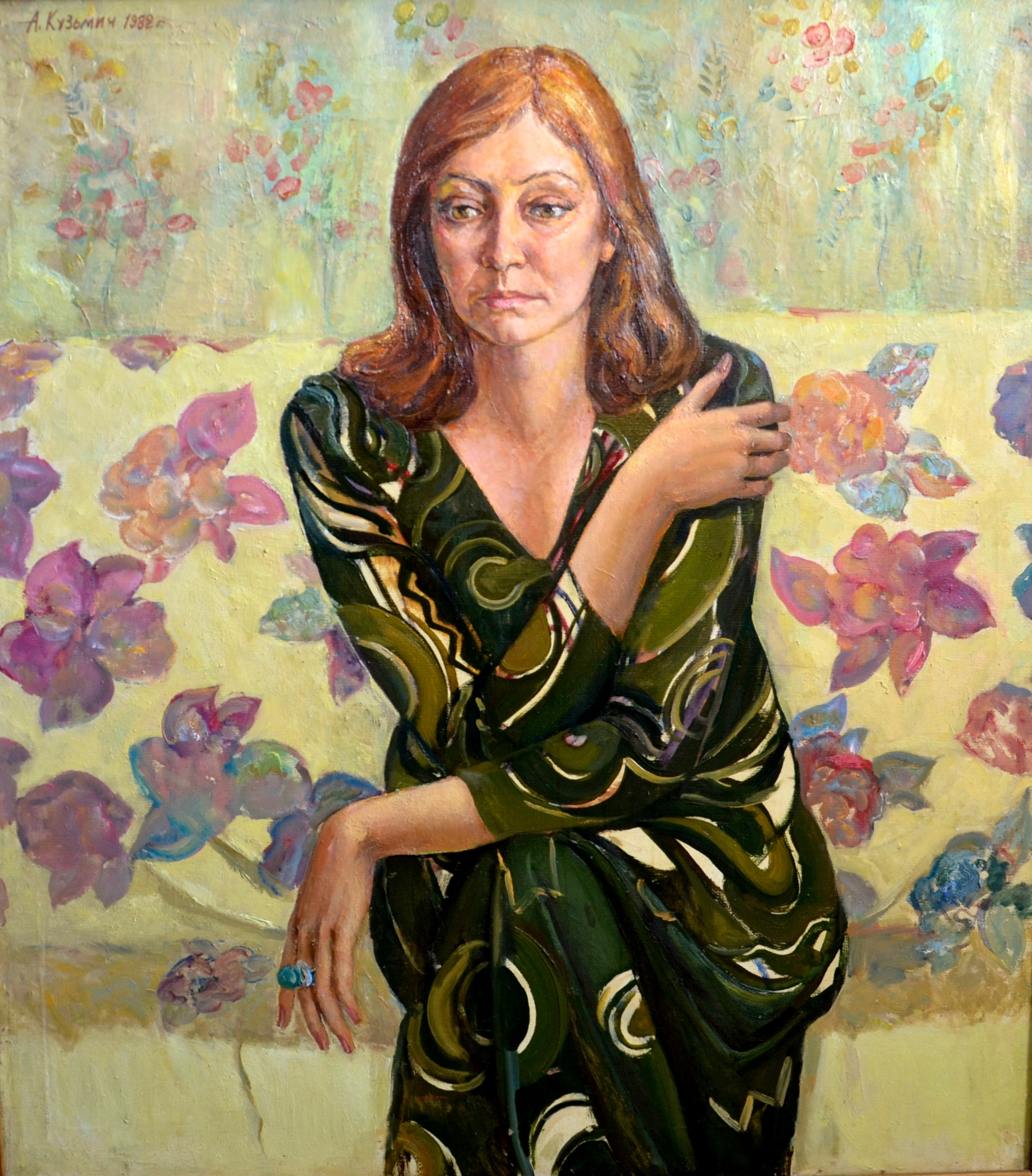 Alexey Kuzmich "Portrait of actress Larisa Luzhina" 1988, oil on canvas, 120 х 107 cm